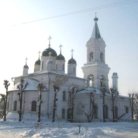 White trinity church in Tver